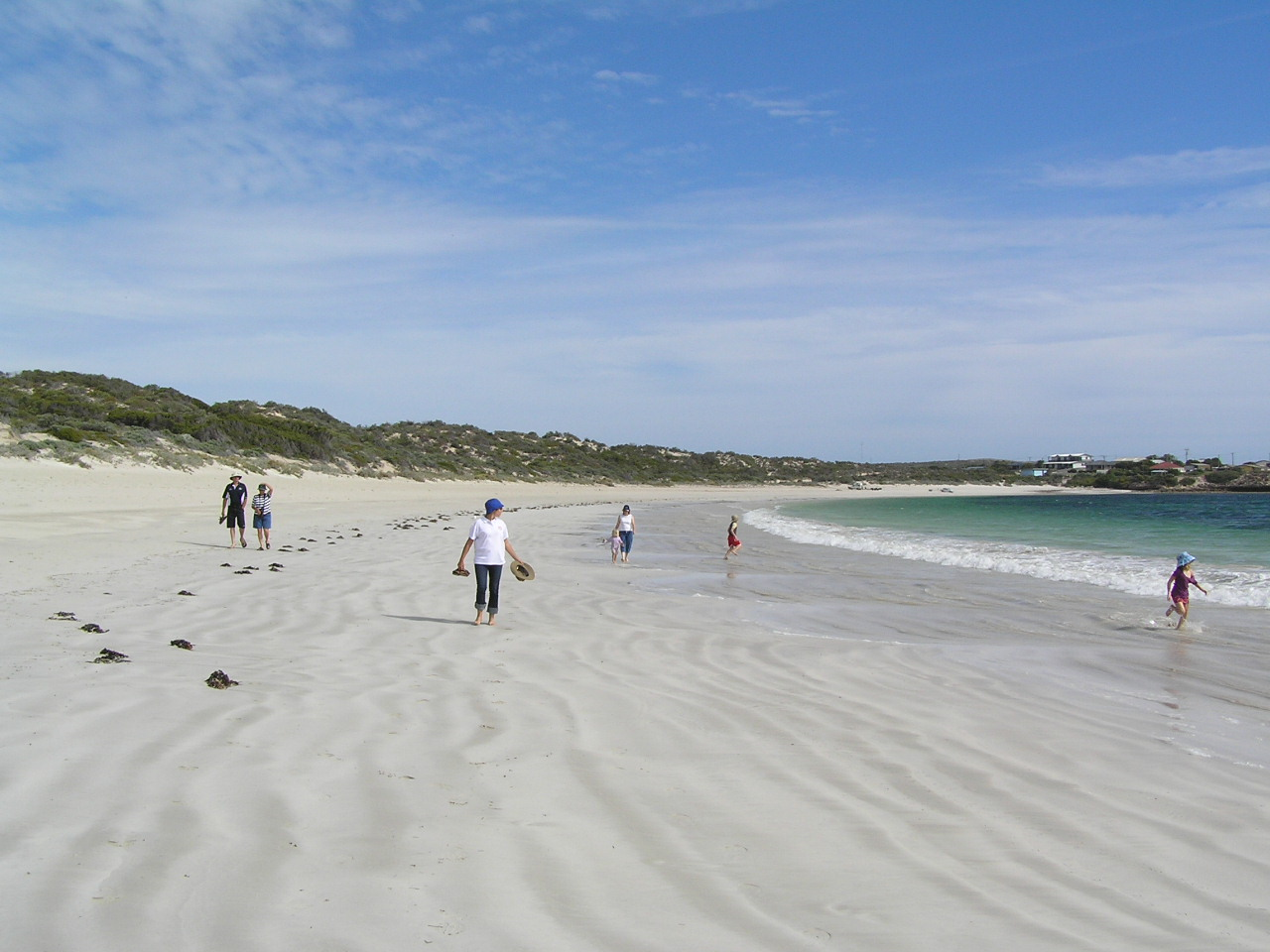 This photo was taken by me Bilbao06 in Dec 2004